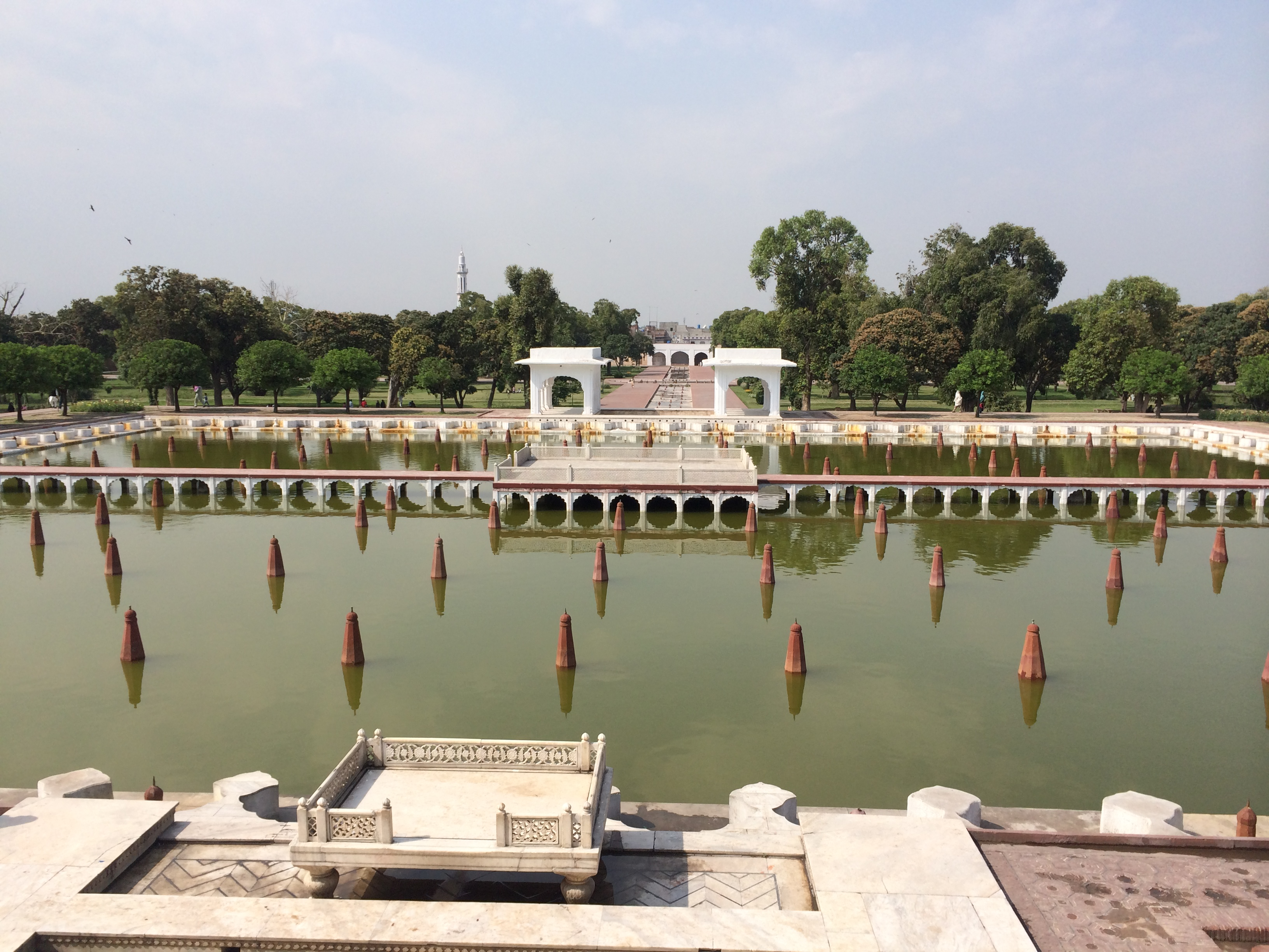 Shalimar Gardens This is a photo of a monument in Pakistan identified as the PB-84